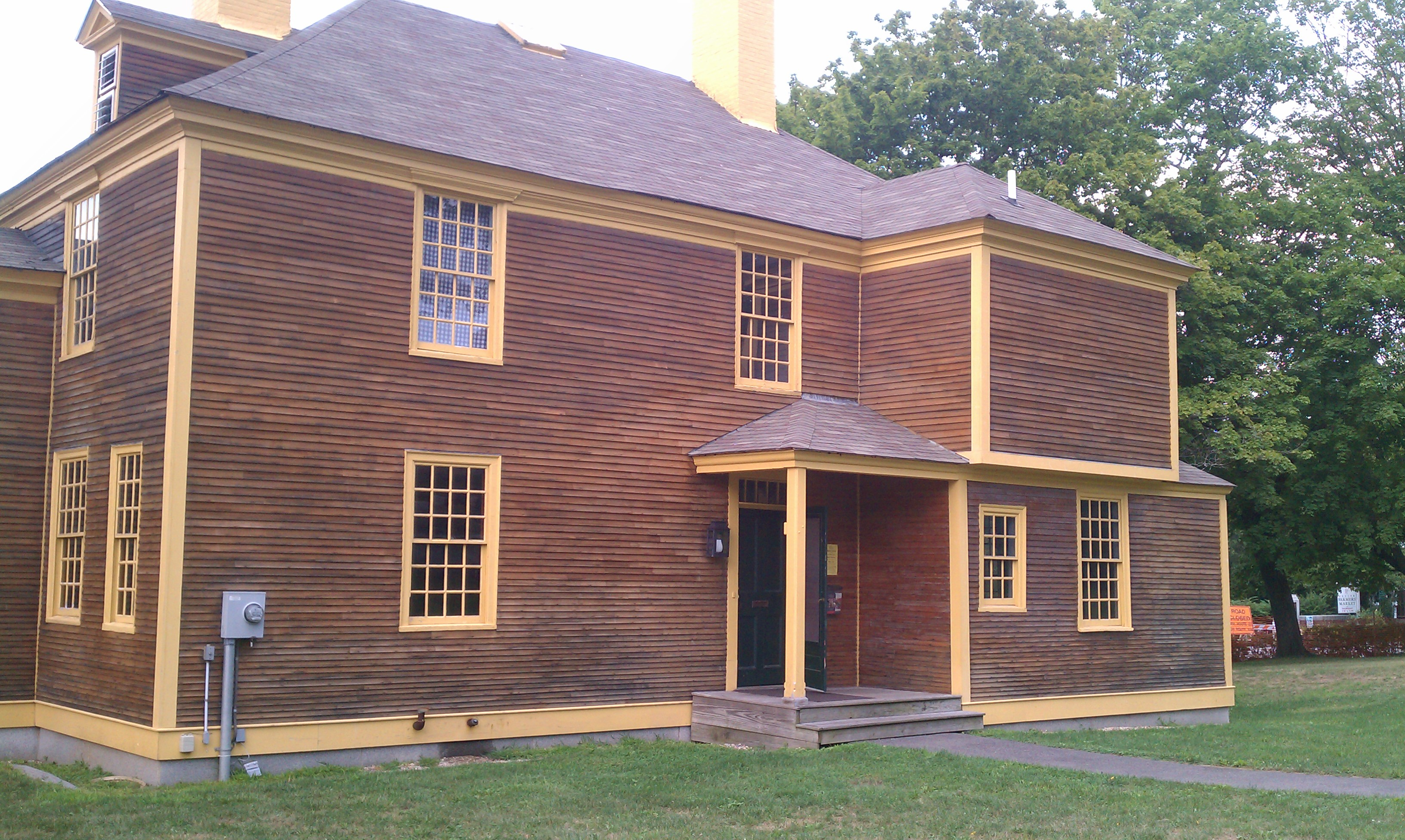 Back of the Folsom Tavern, c 1775, in Exeter, New Hampshire. This building is part of the American Independence Museum and an example of historic taverns